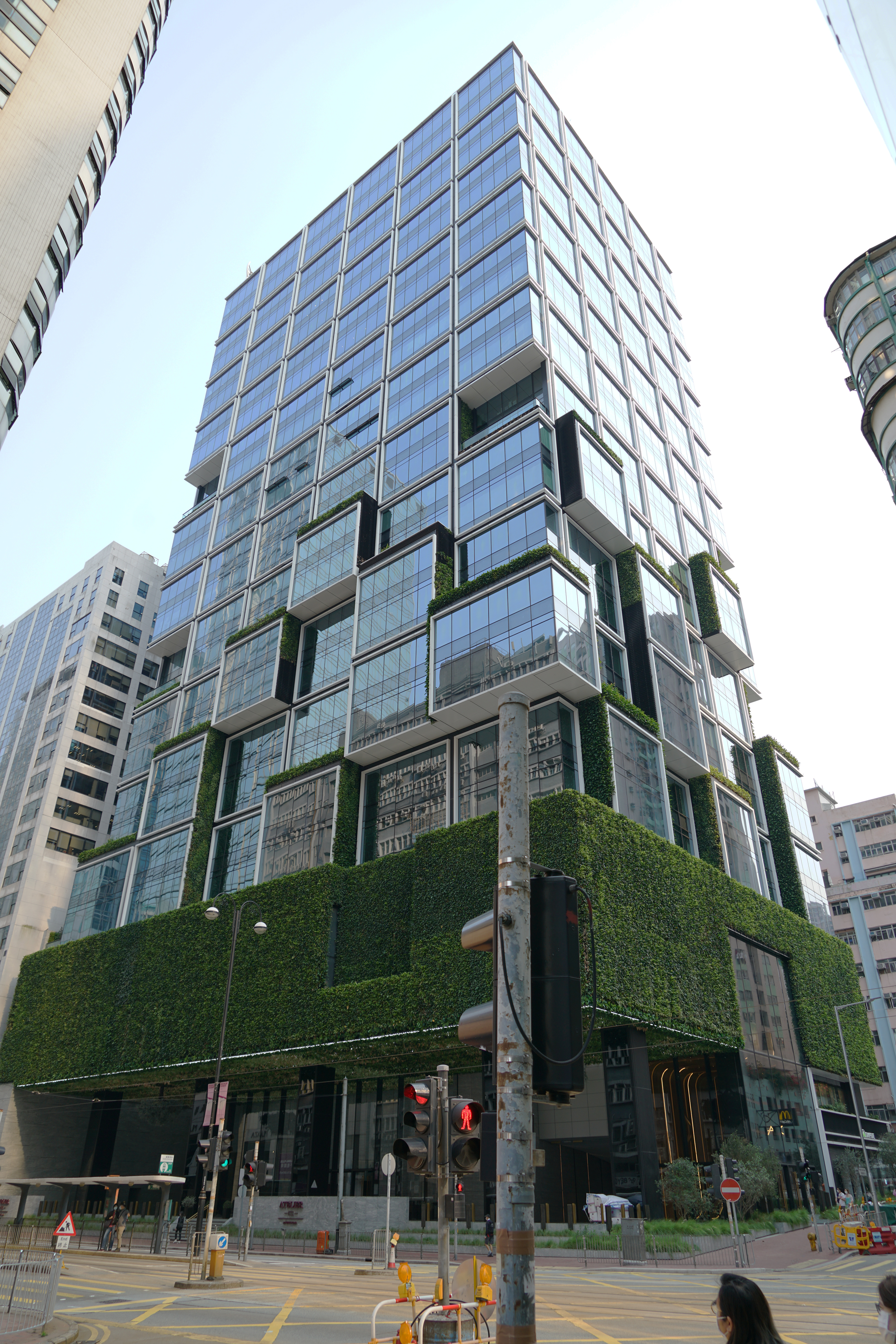 K11 ATELIER King's Road, Hong Kong.